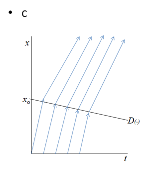 Riemann problem Case I